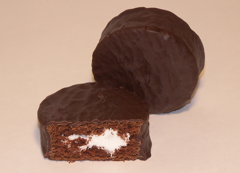 Ding Dongs